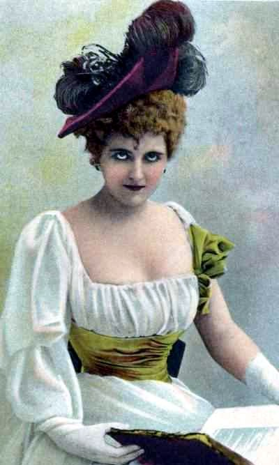 Chromolithograph (German-made) of Clara Ward on an English post card. About 1905. Owned by and scanned and retouched by Tim Ross, who releases all rights.